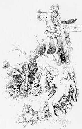 illustration of the Brothers Grimm fairy tale "The Jew Among Thorns"